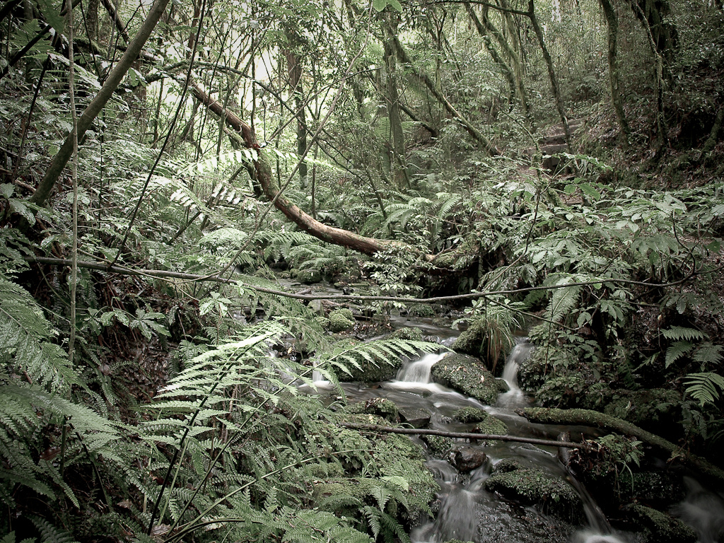 Te Pureora forest, South Waikato District, Waikato, NZ